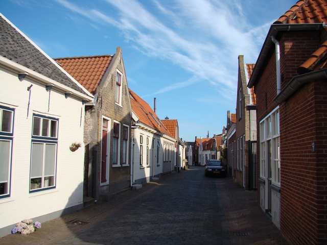 Impressions of Brouwershaven, Netherlands